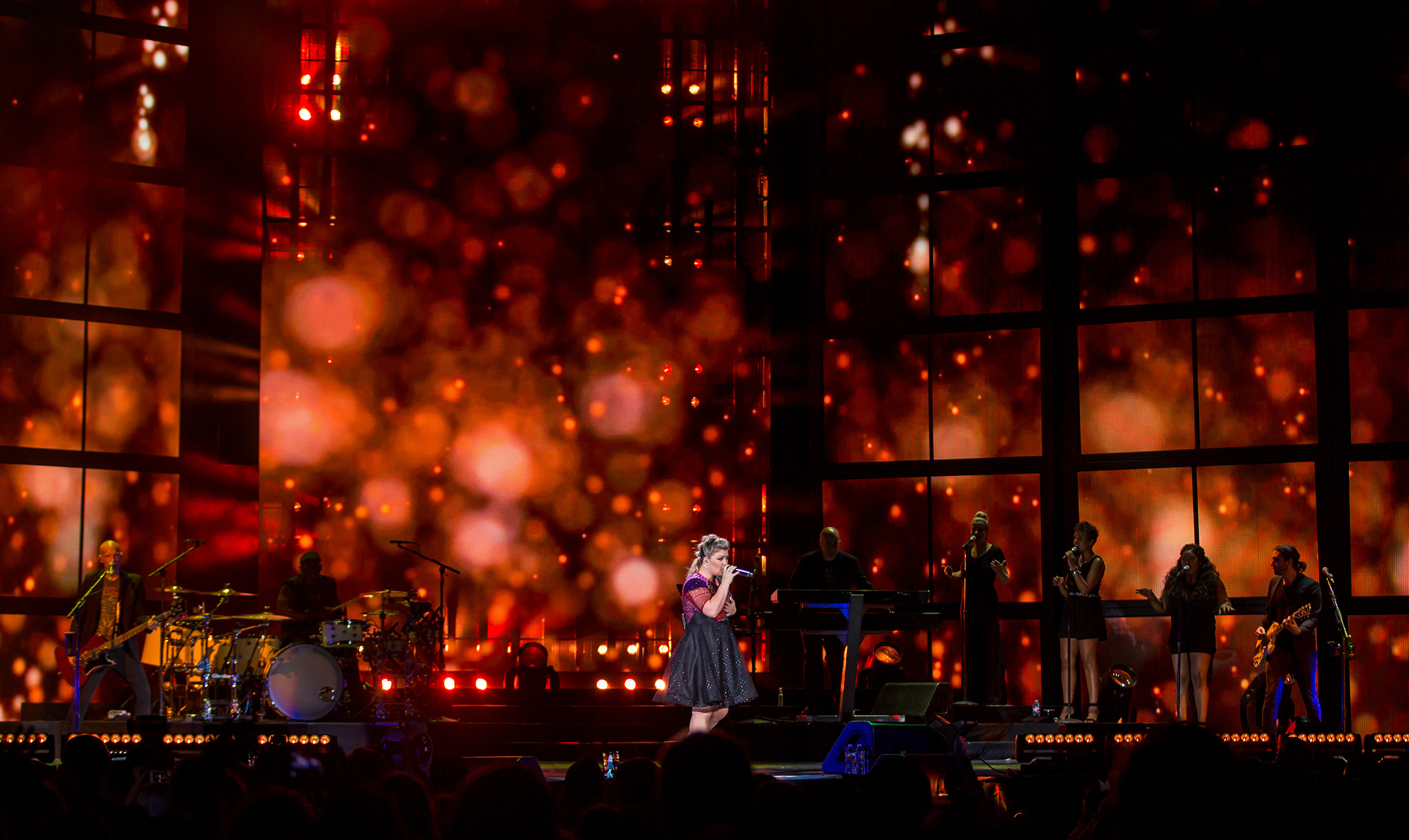 Kelly Clarkson performing on stage during the 2015 Piece By Piece Tour held at the Austin360 Amphitheater in Austin, Texas on August 29, 2015.